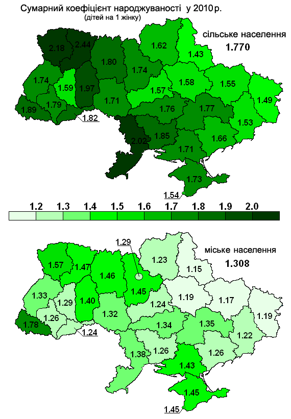 Total fertility of rural (top) and urban (bottom) population of Ukraine, 2010